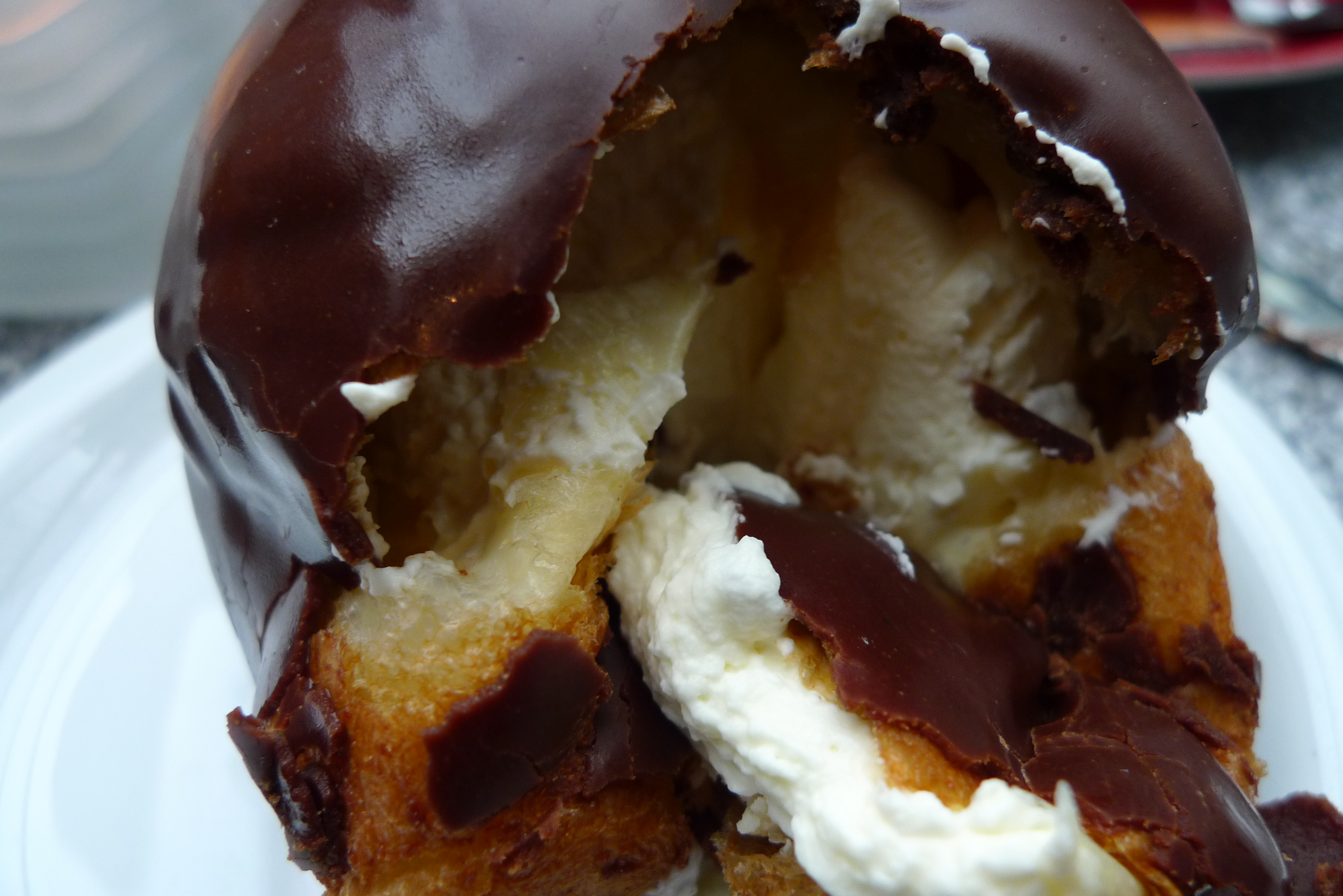 the inside of a Bossche Bol